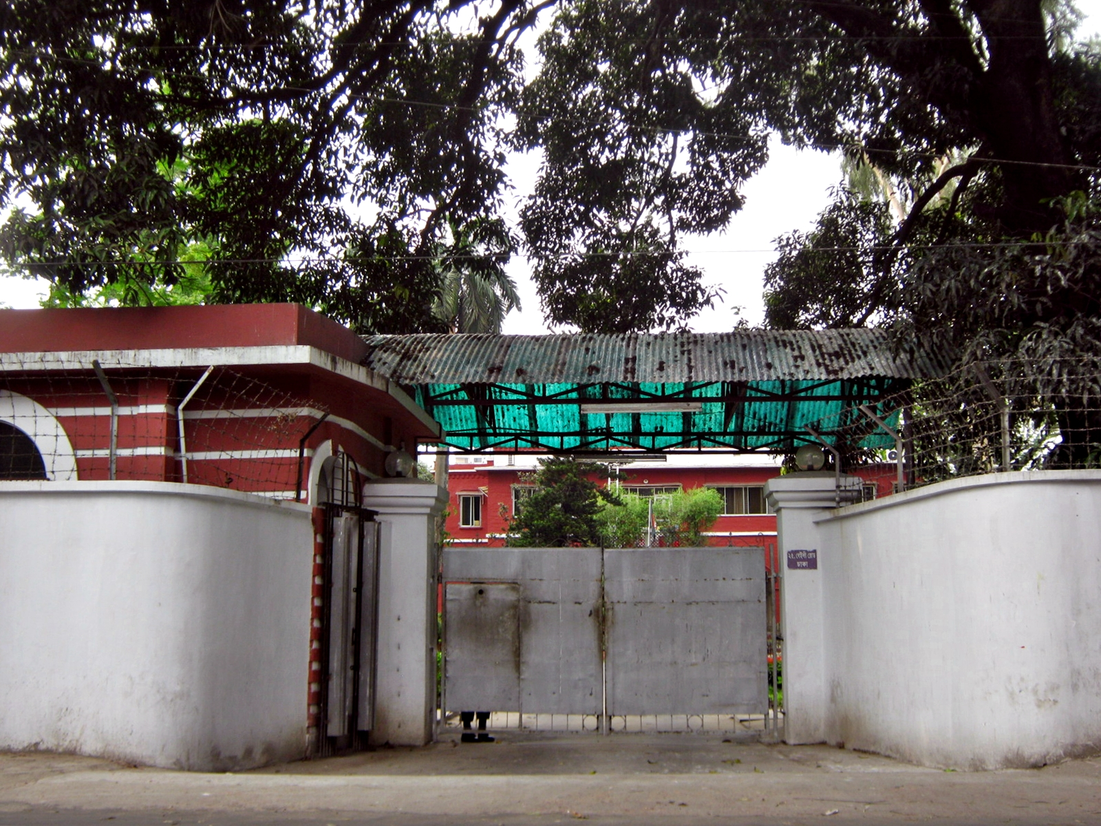 Residence of officials and ministers